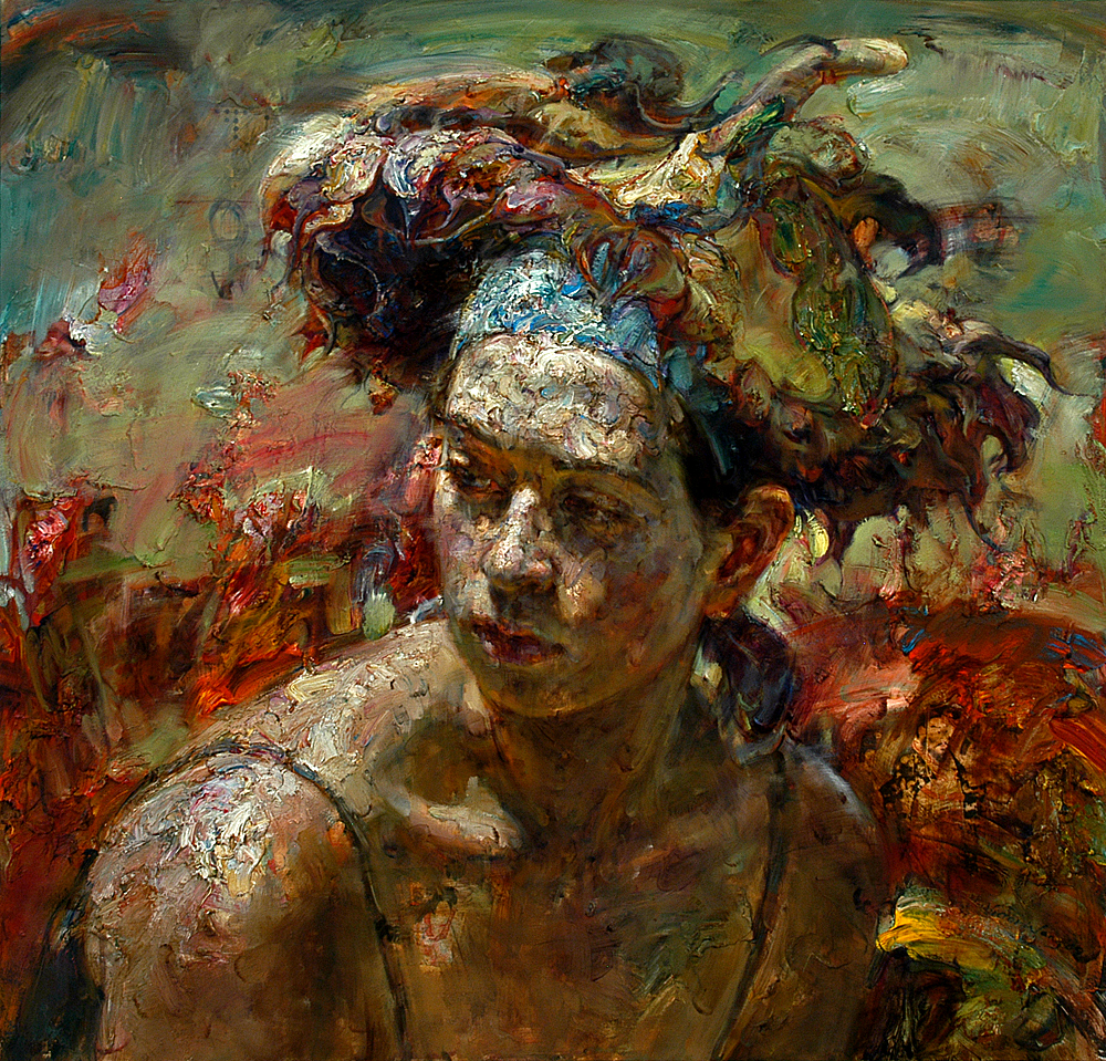 Pink Auttum, painting by Victor Wang, 2017